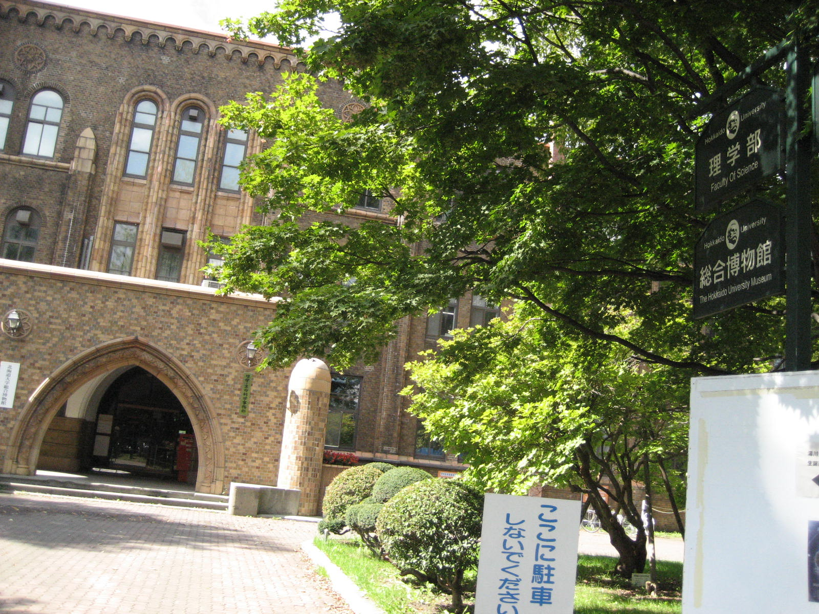 The Hokkaido University Museum in Sapporo during Summer session